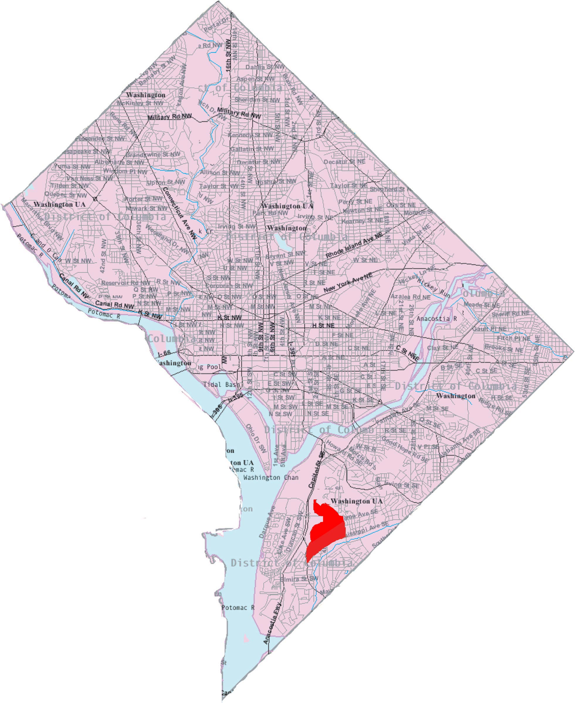 This image is a modified version of a self-generated reference map from the U.S. Census Bureau's American Factfinder at by Wikipedia user Msclguru.